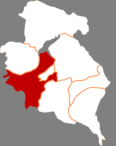 Location of Linxia county in Linxia Hui Autonomous Prefecture, China